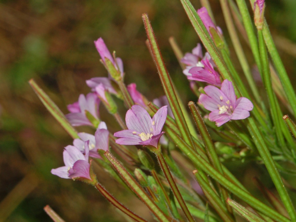 Epilobium parviflorum - Parco dell'Aveto, Genova, Italy